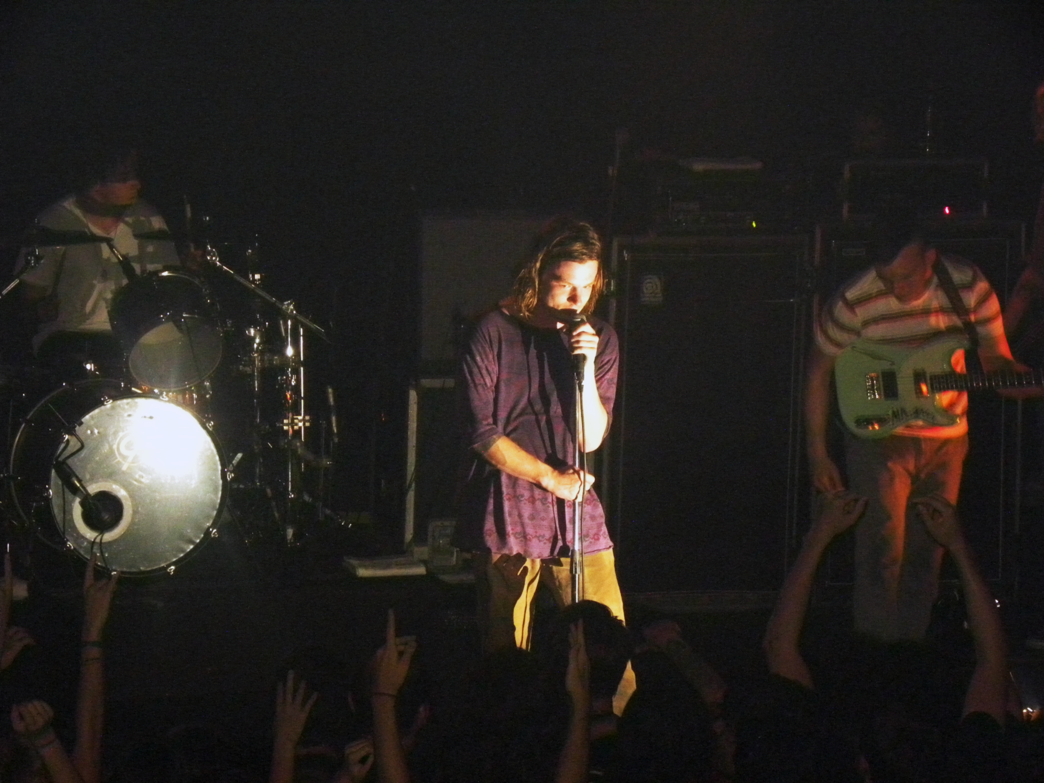 The american indie rock band Cage the Elephant, at La Trastienda Club, Buenos Aires, Argtentina. 2012/04/01